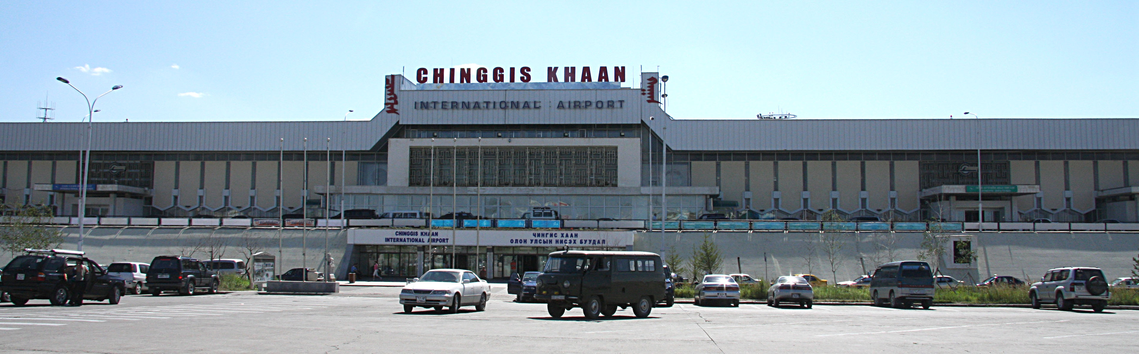 Chinggis Khaan International Airport